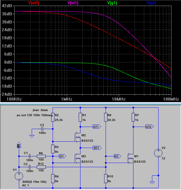 Cascode f-response vs. non-cascode